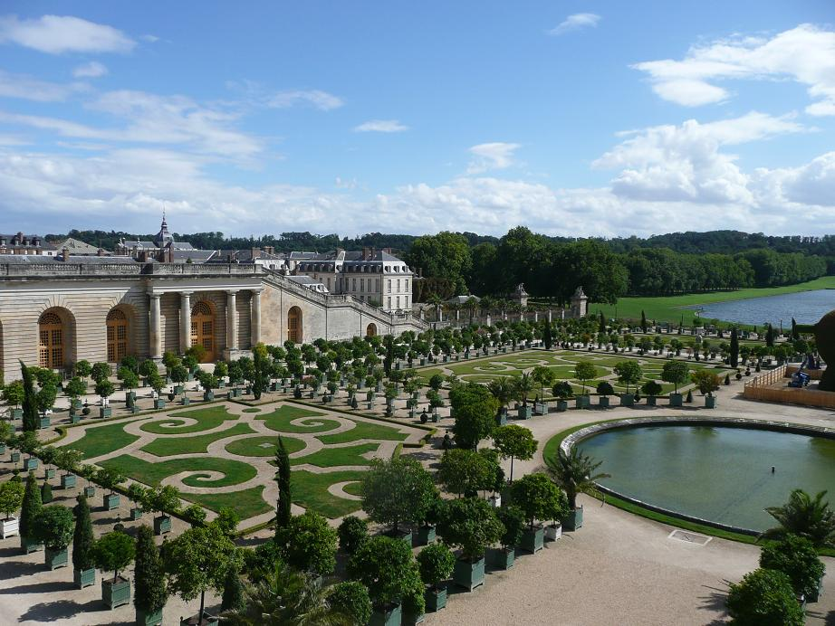 L'Orangerie, Palace of Versailles